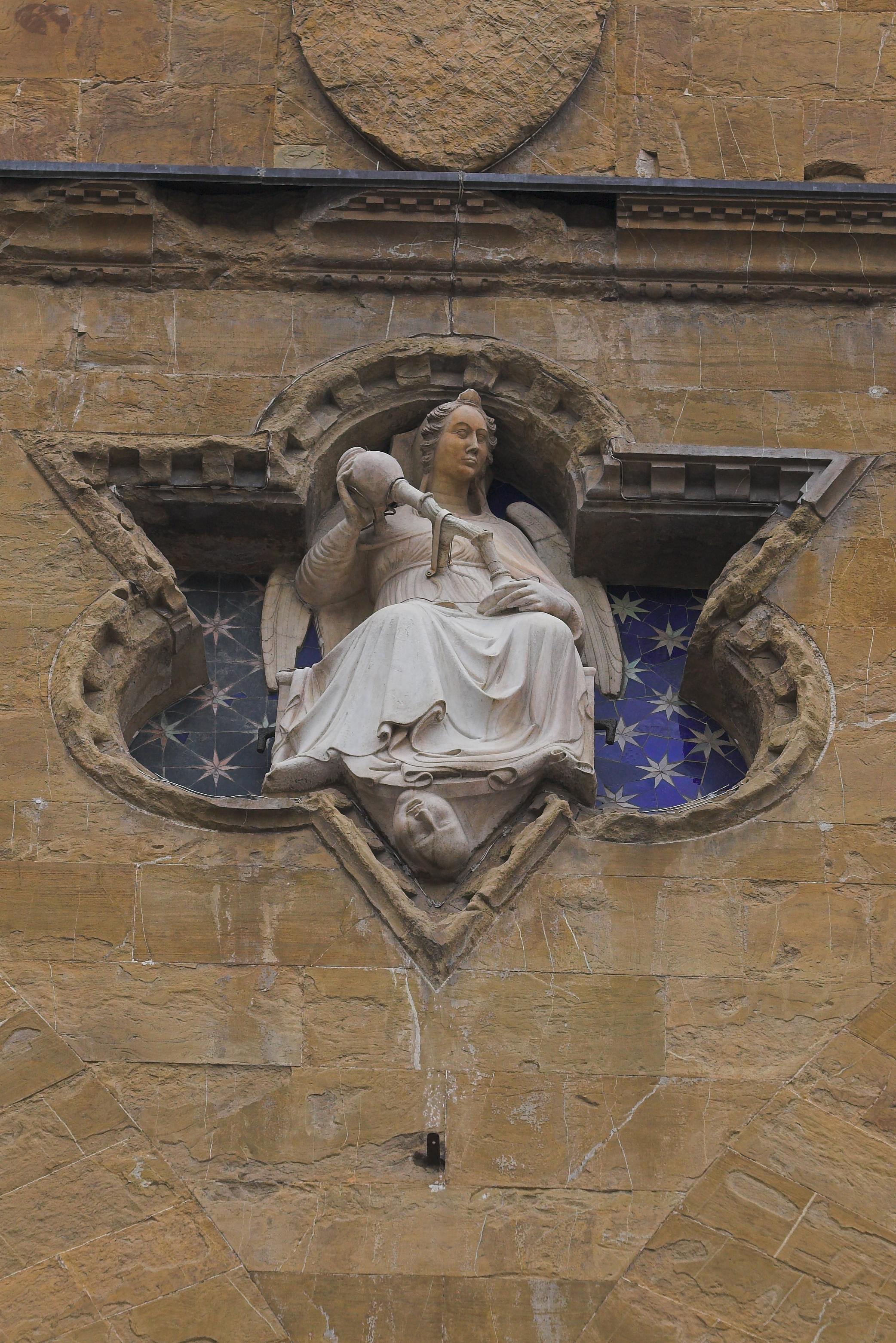 An image of Temperance, one of the four cardinal virtues, pouring water from one vessel to another.